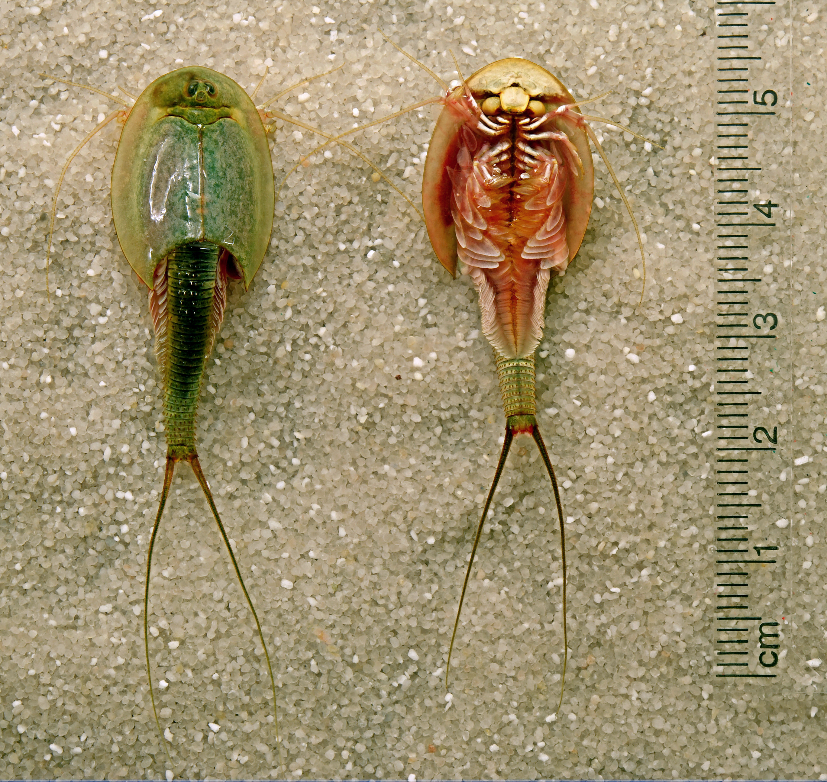 Triops longicaudatus. Ventral and dorsal view of adult specimens. Both are offsprings in an aquarium and died naturally. The picture is a fusion with five different light exposure (130/10, 60/10, 30/10, 16/10, 10/13). Nikon D40x with AF-S Micro NIKKOR 60mm 1:2.8 G.